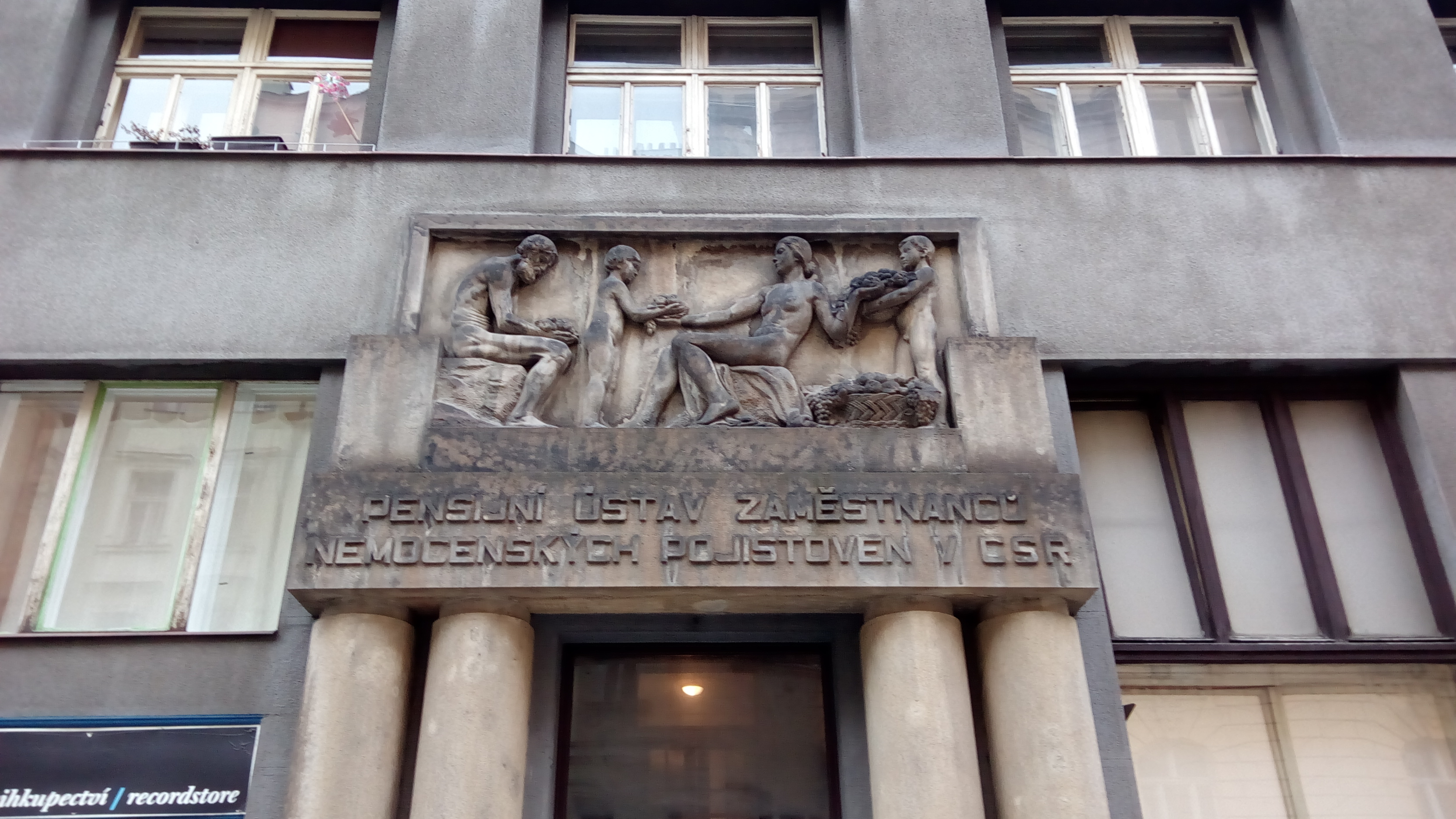 Josef Augustin Paukert, Basrelief on supraporta of the bulding in Prague - New Town, Dittrichova street Num.337